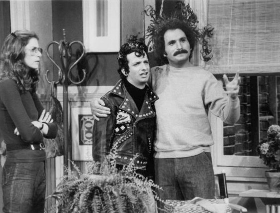 Photo of Marcia Strassman (Julie Kotter), Ron Palillo (Arnold Horshack), and Gabe Kaplan (Gabe Kotter) in a scene from Welcome Back, Kotter.